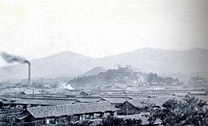 The Aso Yoshikuma mine near Fukuoka, Japan, owned by current Japanese prime minister Taro Aso's family and which employed forced POW labor during World War II.